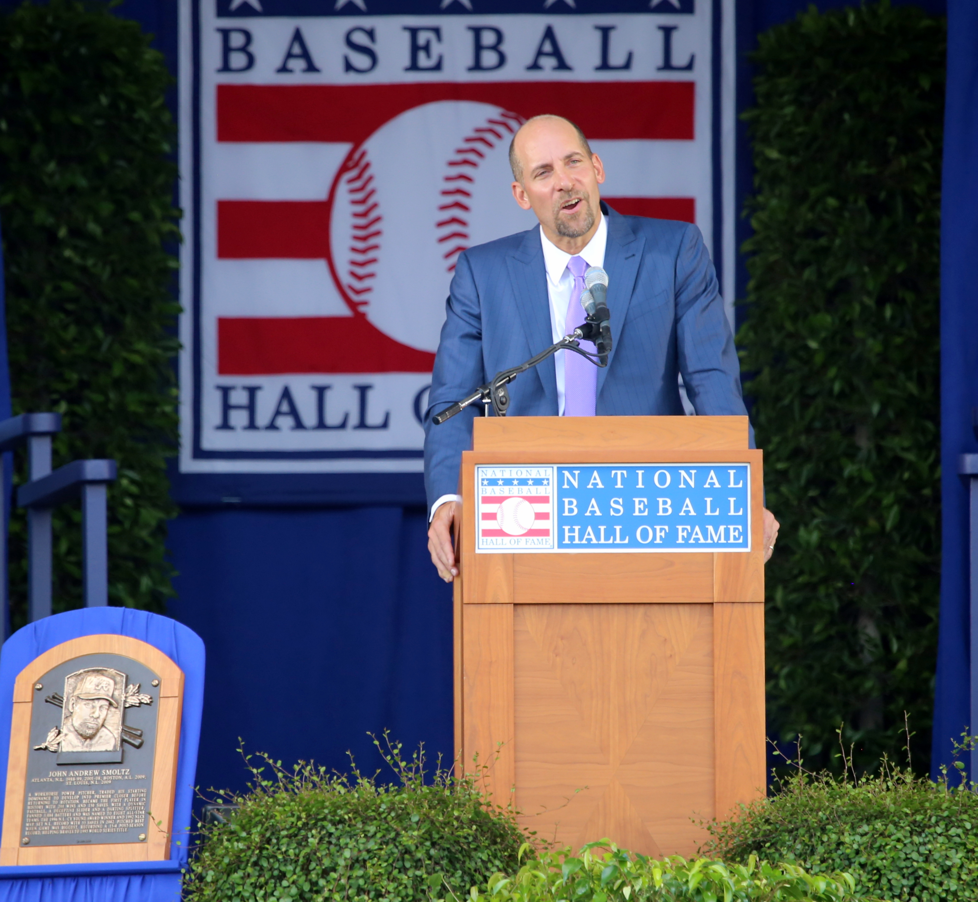 John Smoltz is inducted into the National Baseball Hall of Fame.